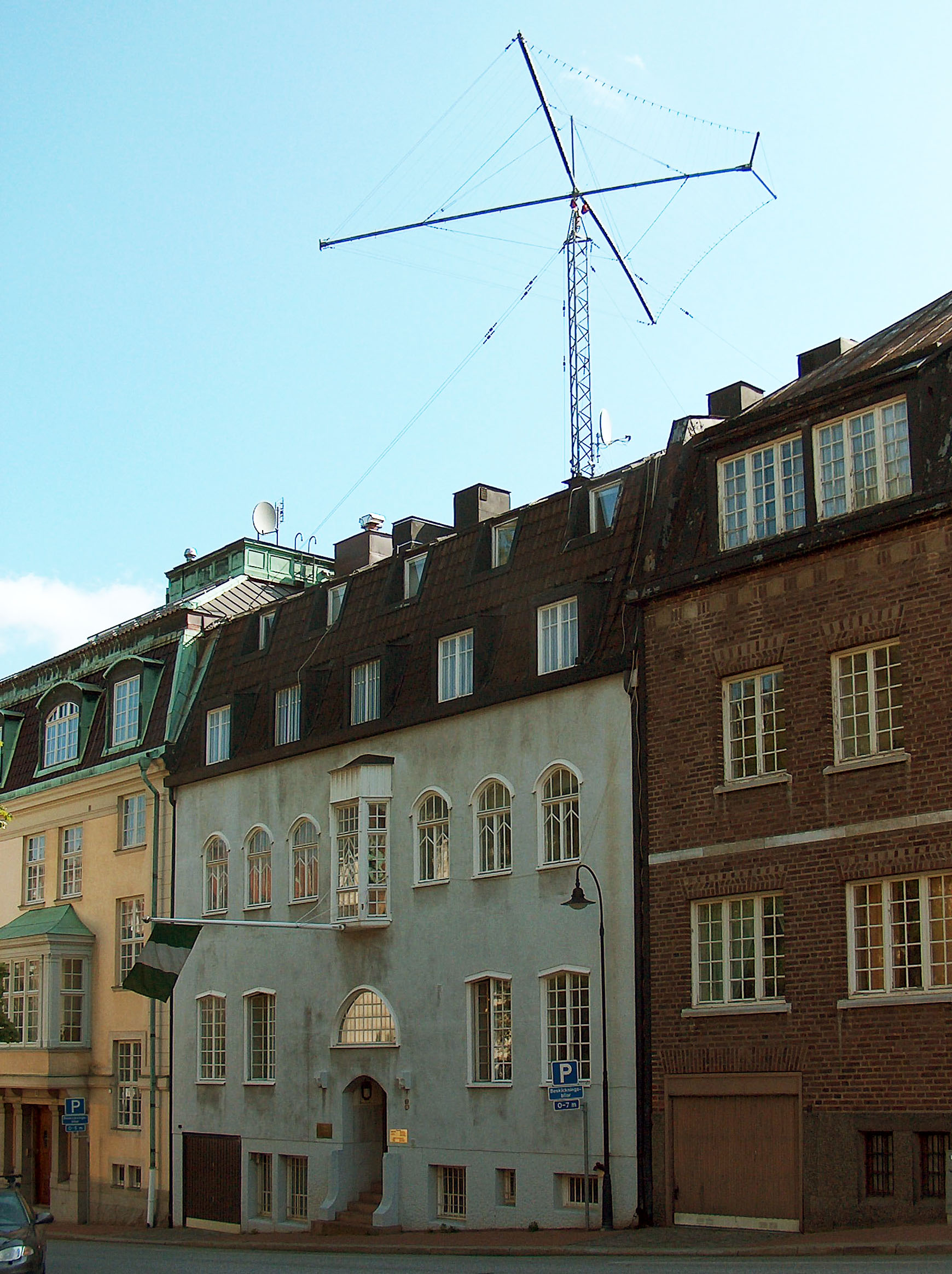 Nigerian Embassy in Stockholm, Sweden.